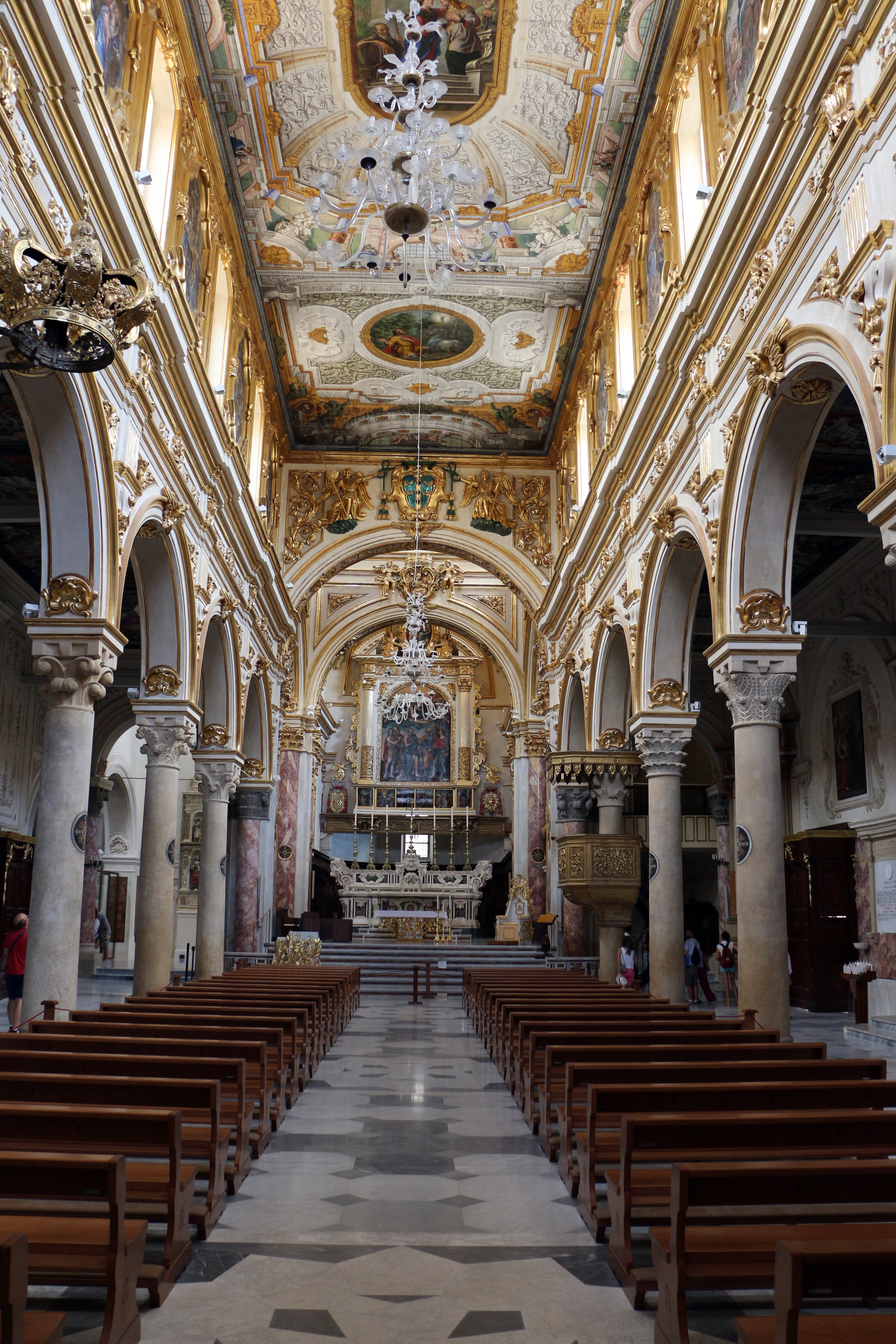 Cathedral (Matera)